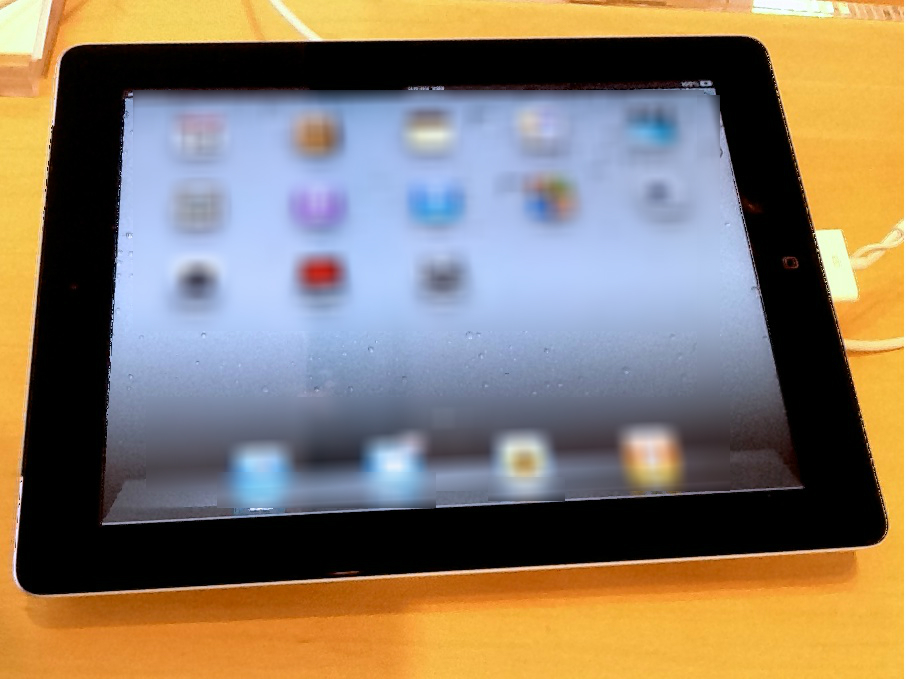 Front of black iPad 2.